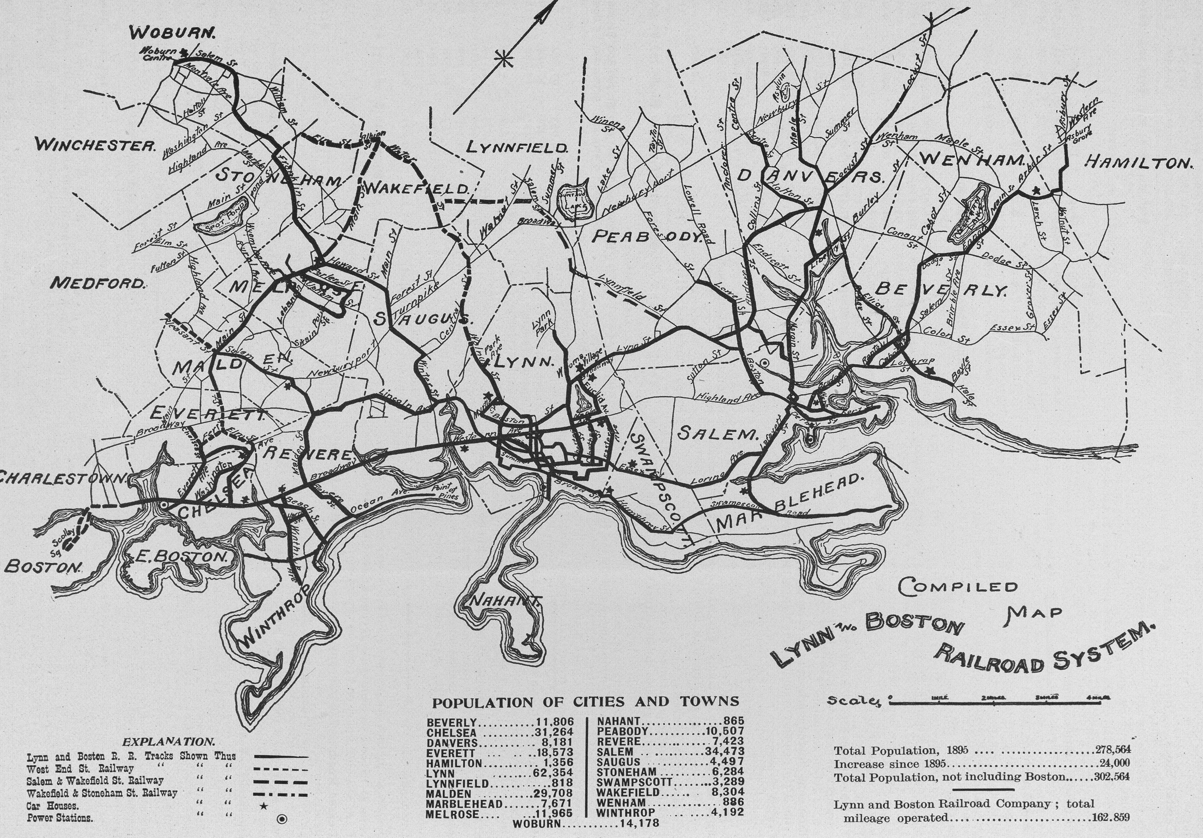 Map of the Lynn and Boston Street Railway shortly before its 1901 merger into the Boston and Northern Street Railway